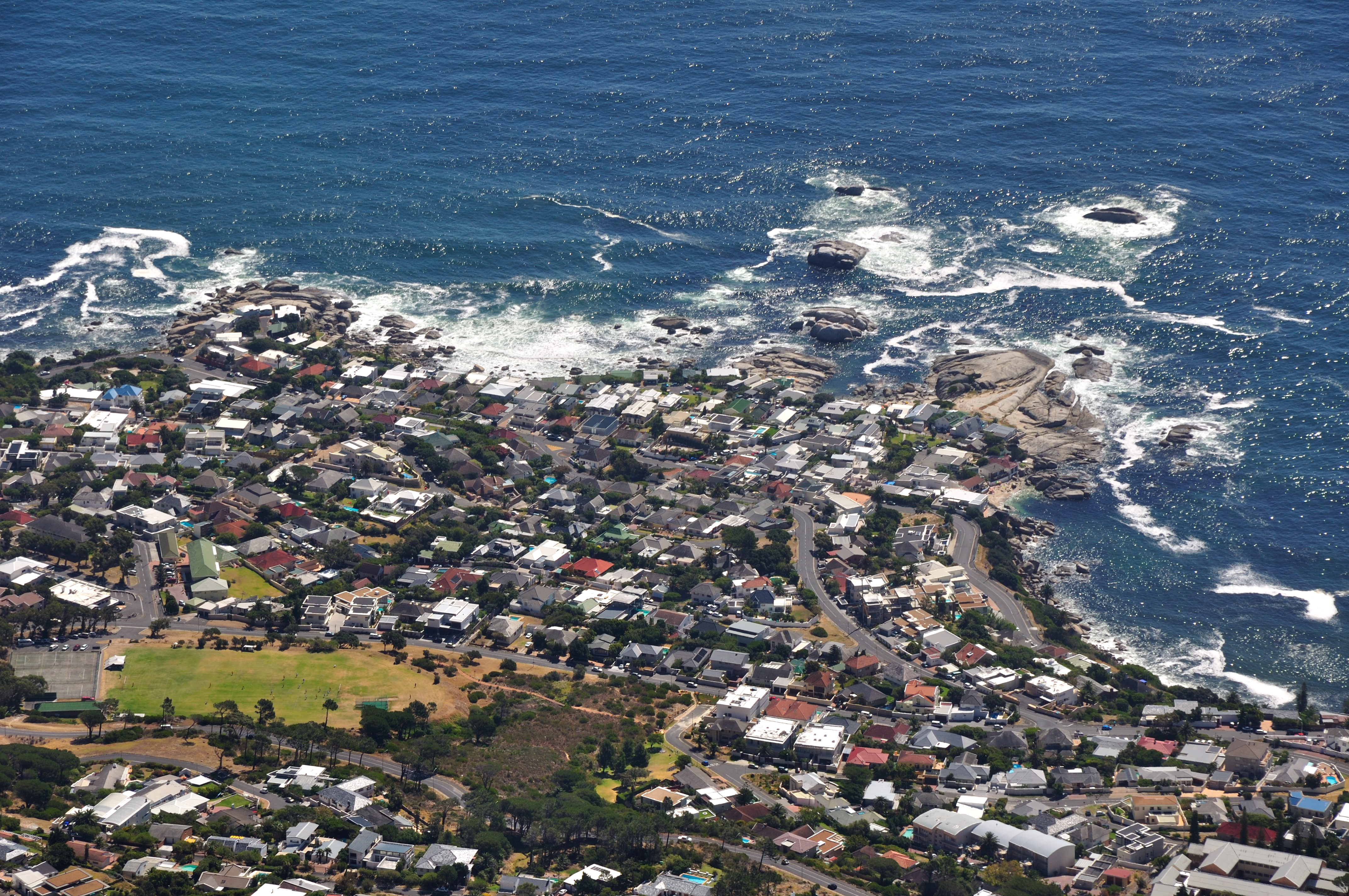 South Africa, views from Table Mountain